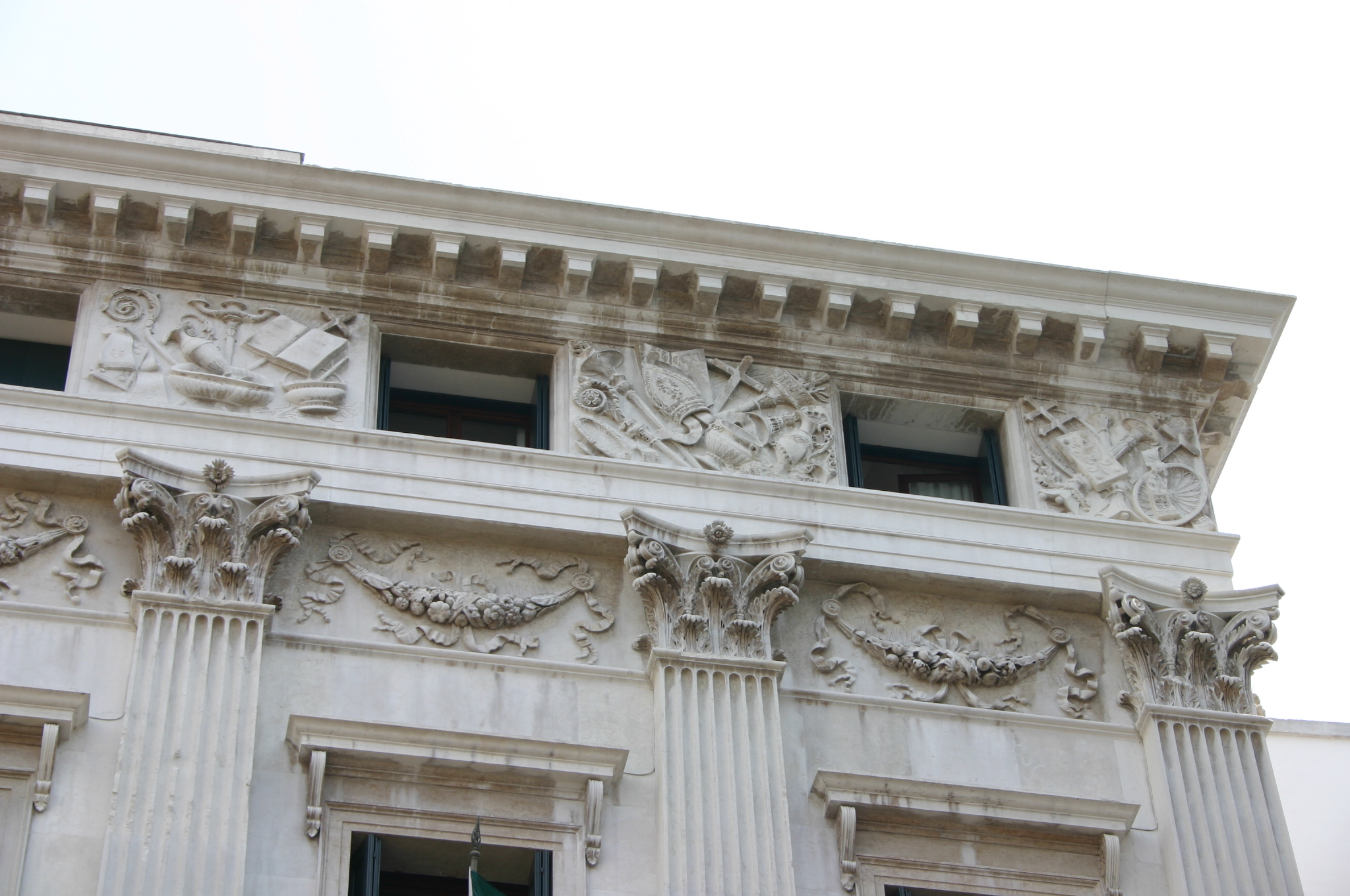 Venice, Lorenzo Santi, detail from he decoration of the Palazzo patriarcale (the palace of the bishops of Venice), in Piazzetta dei leoncini (next to San Marco church) (1837/1870). Picture by Giovanni Dall'Orto, August 8, 2007.